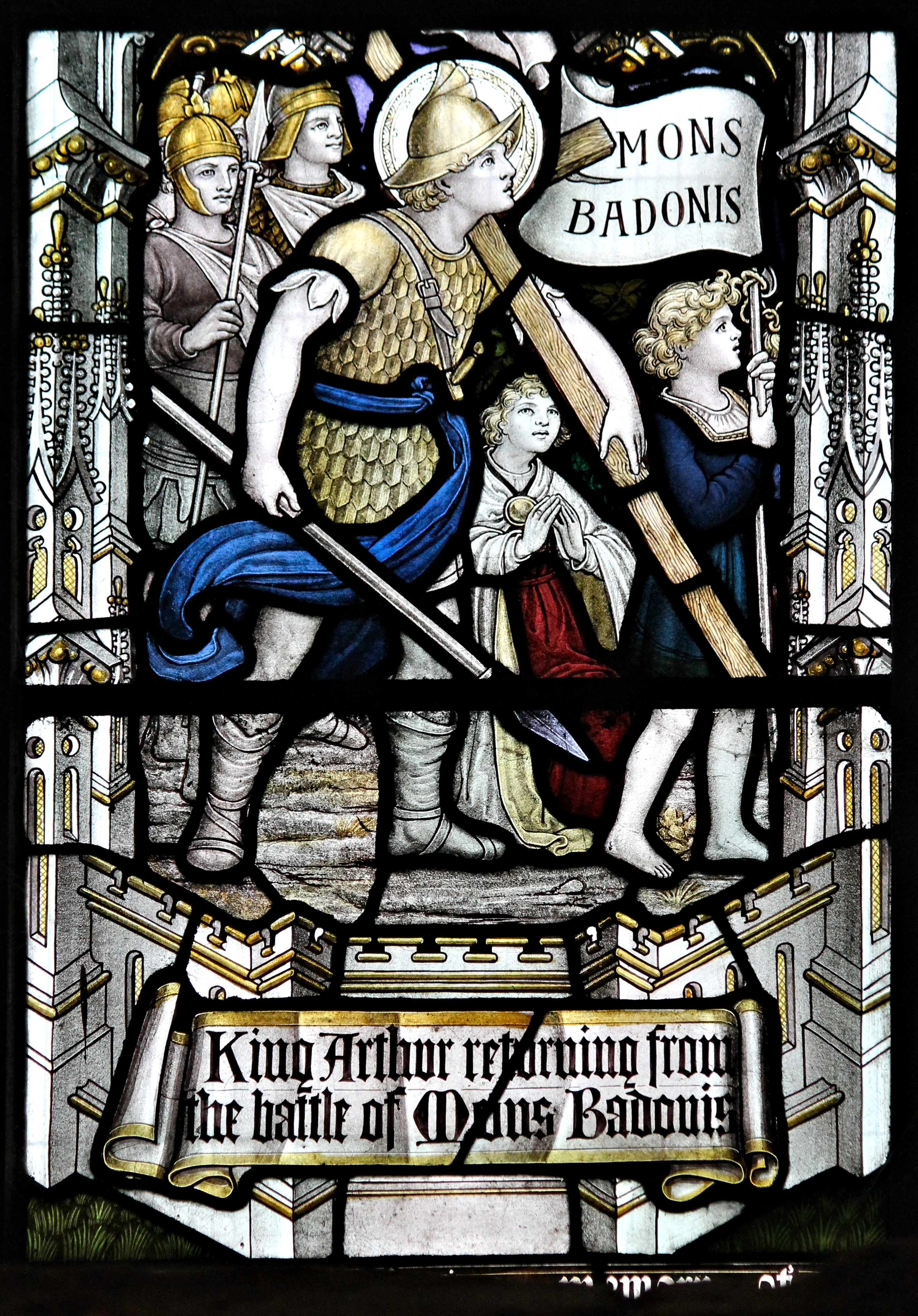 Photograph taken in Llandaf Cathedral, Cardiff, South Wales. King Arthur returning from the Battle of Mons Badonis (or Mount Badon). First reference to Arthur, found in early Welsh literature.